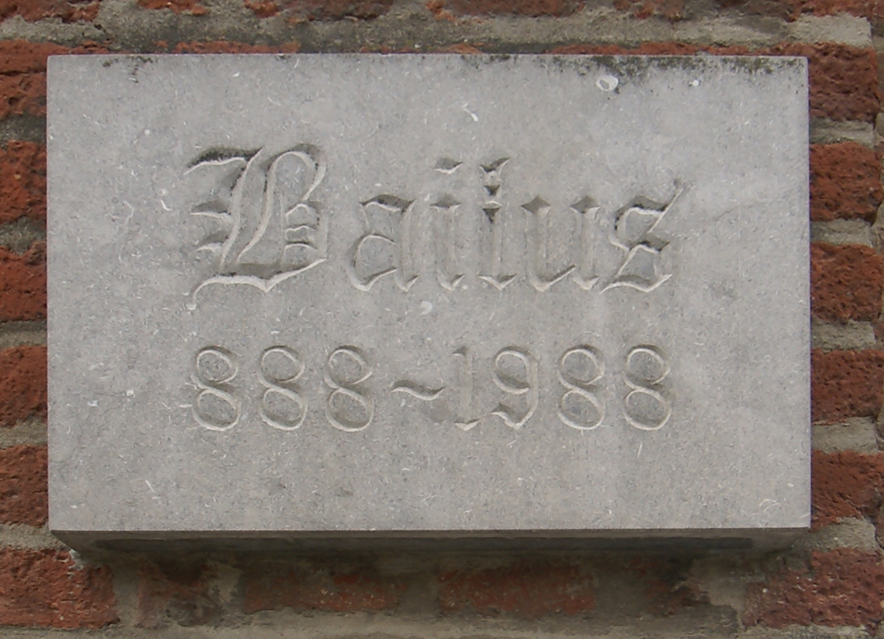 Baelen (Belgium): Town Hall, detail